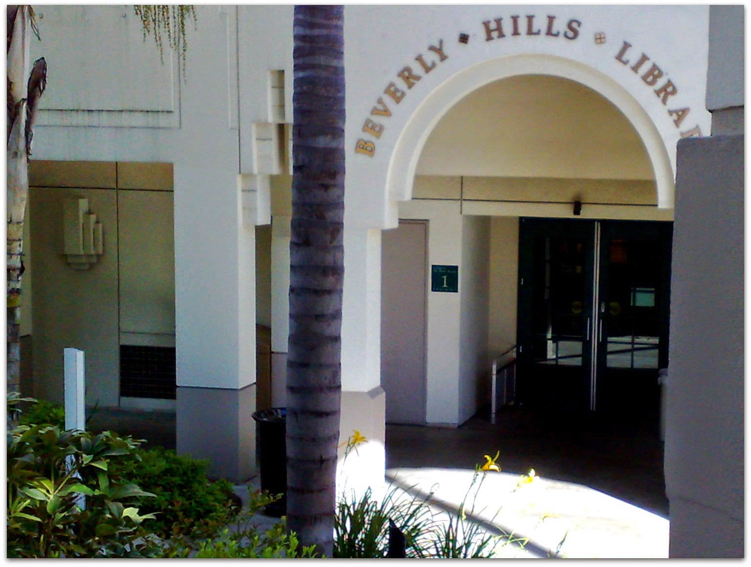 The Beverly Hills Public Library (Entrance)